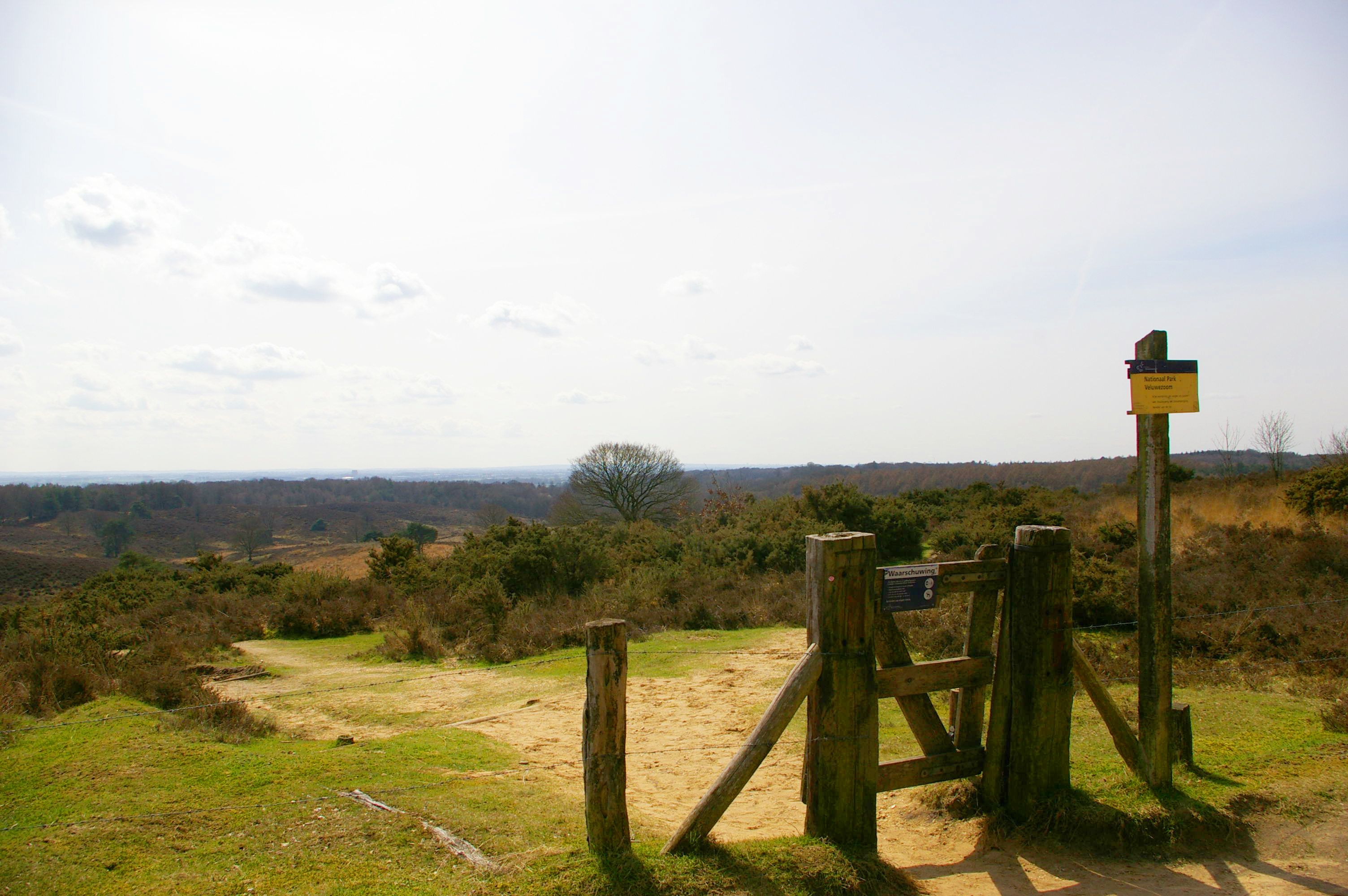 In the Veluwezoom National Park, northeast of Arnhem